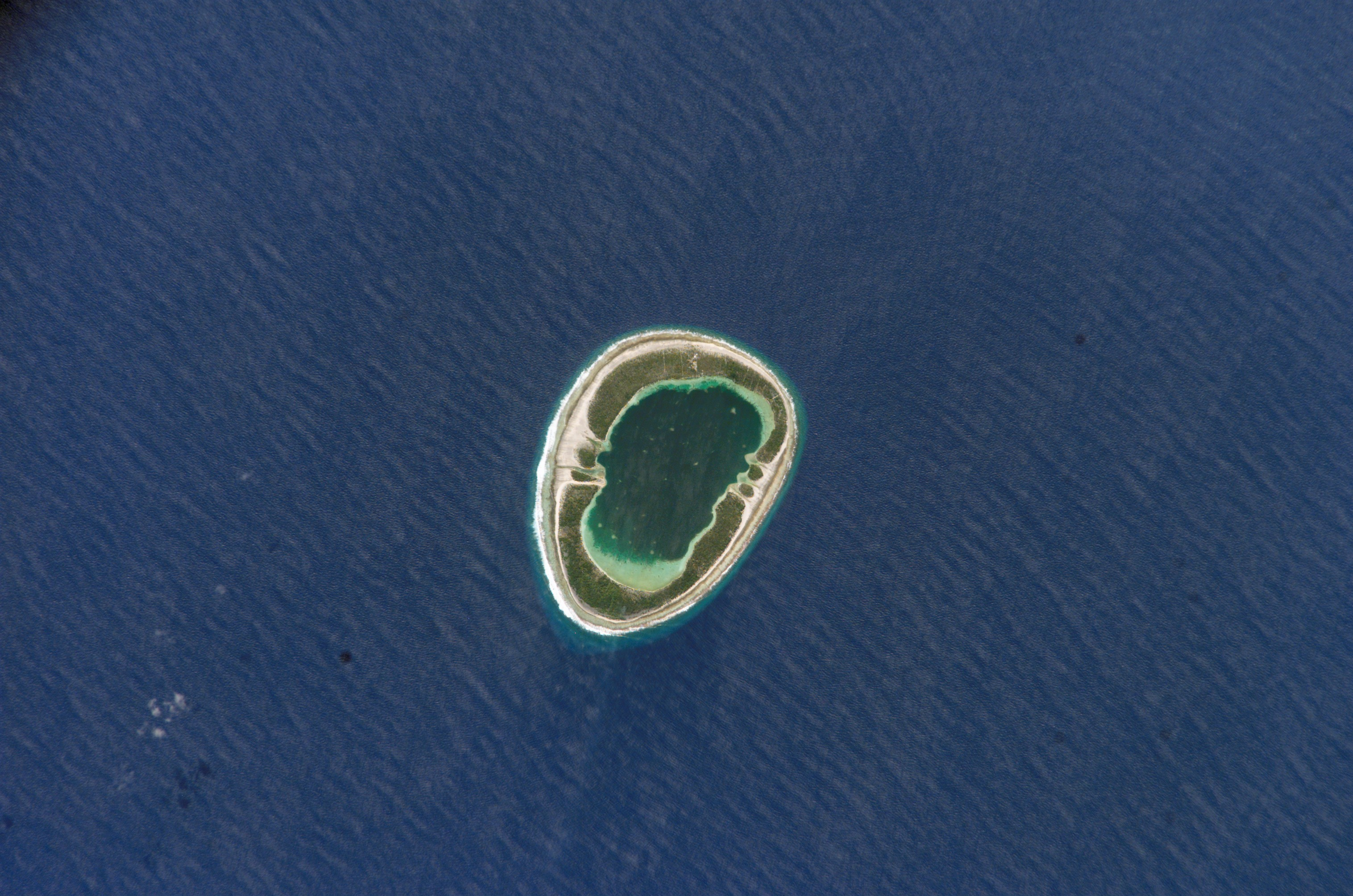 NASA Astronaut Image of Vanavana Atoll (Tuamotu Archipelago, French Polynesia) in the Pacific Ocean